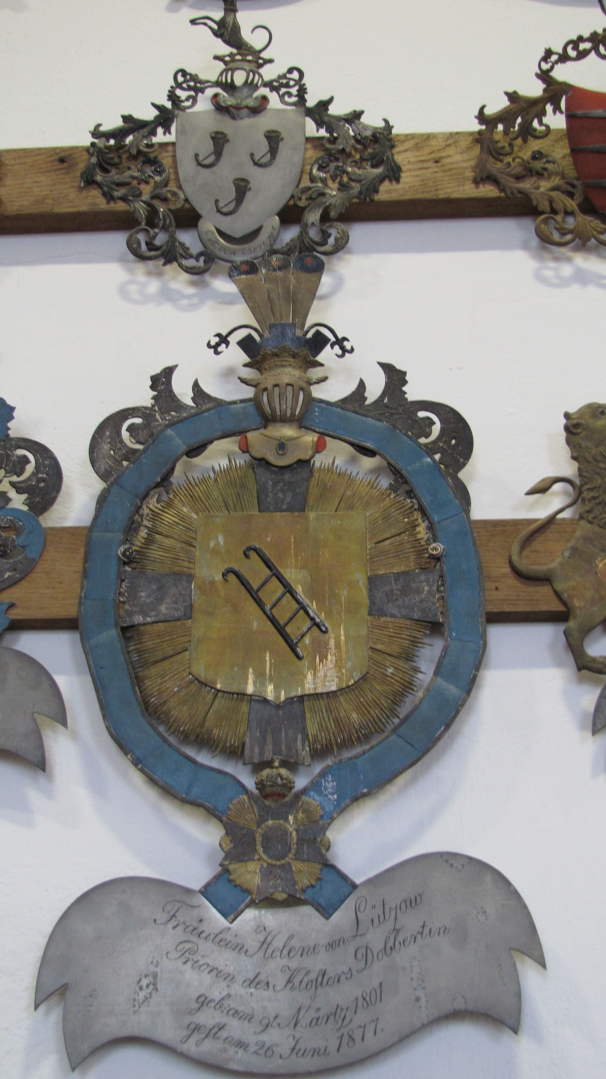 Coat of arms of Helene von Lützow, prioress of Kloster Dobbertin, from a Wappentafel now in Schloss Güstrow